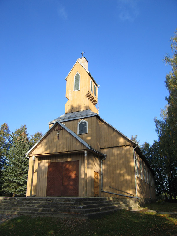 Catholic church in Kapciamiestis, Lithuania